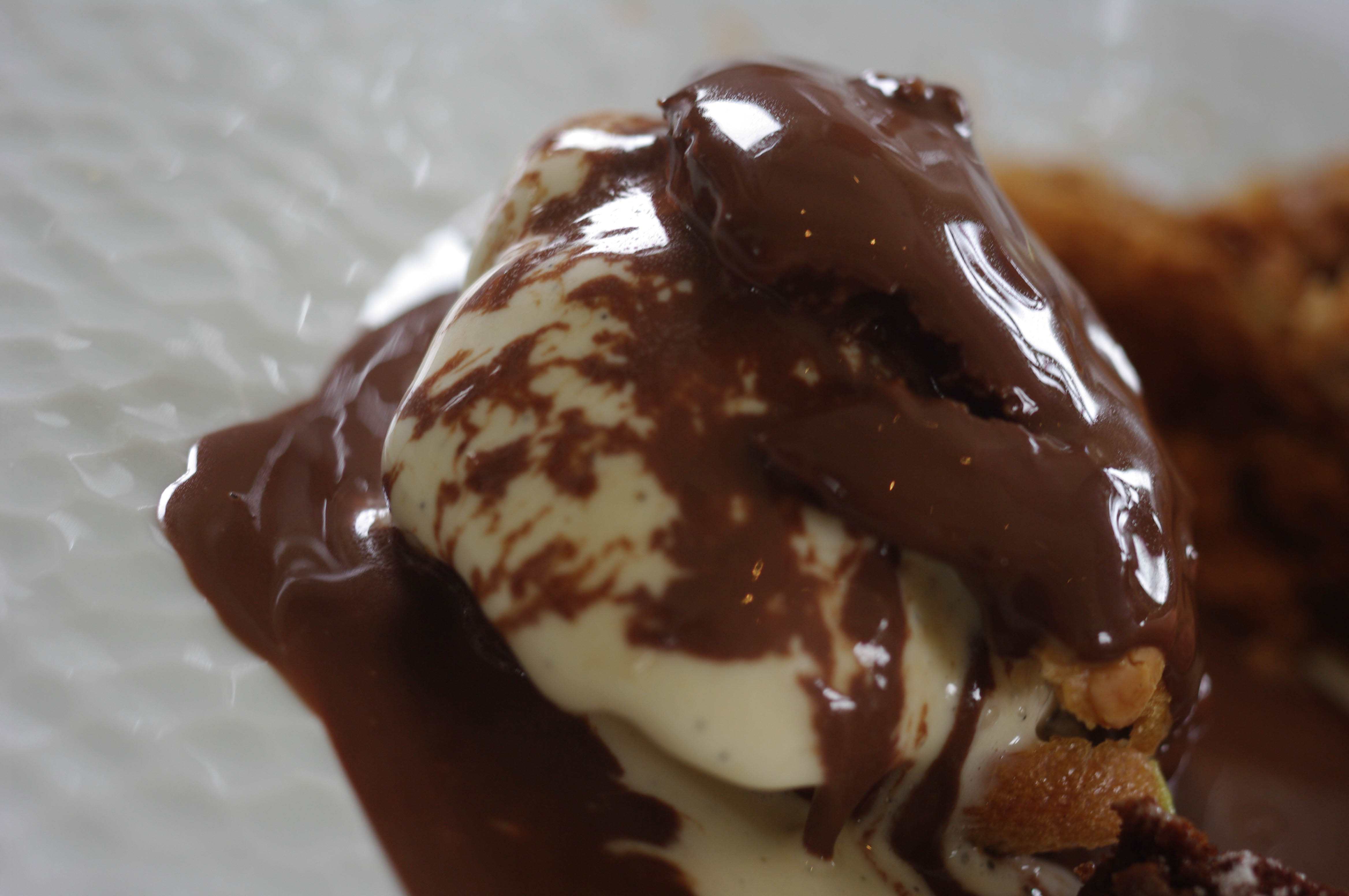 More pictures from the Olivier Roellinger Restaurant le Coquillage here